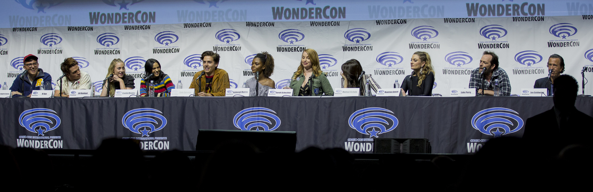 From the Riverdale panel at WonderCon 2017 in Anaheim, California.